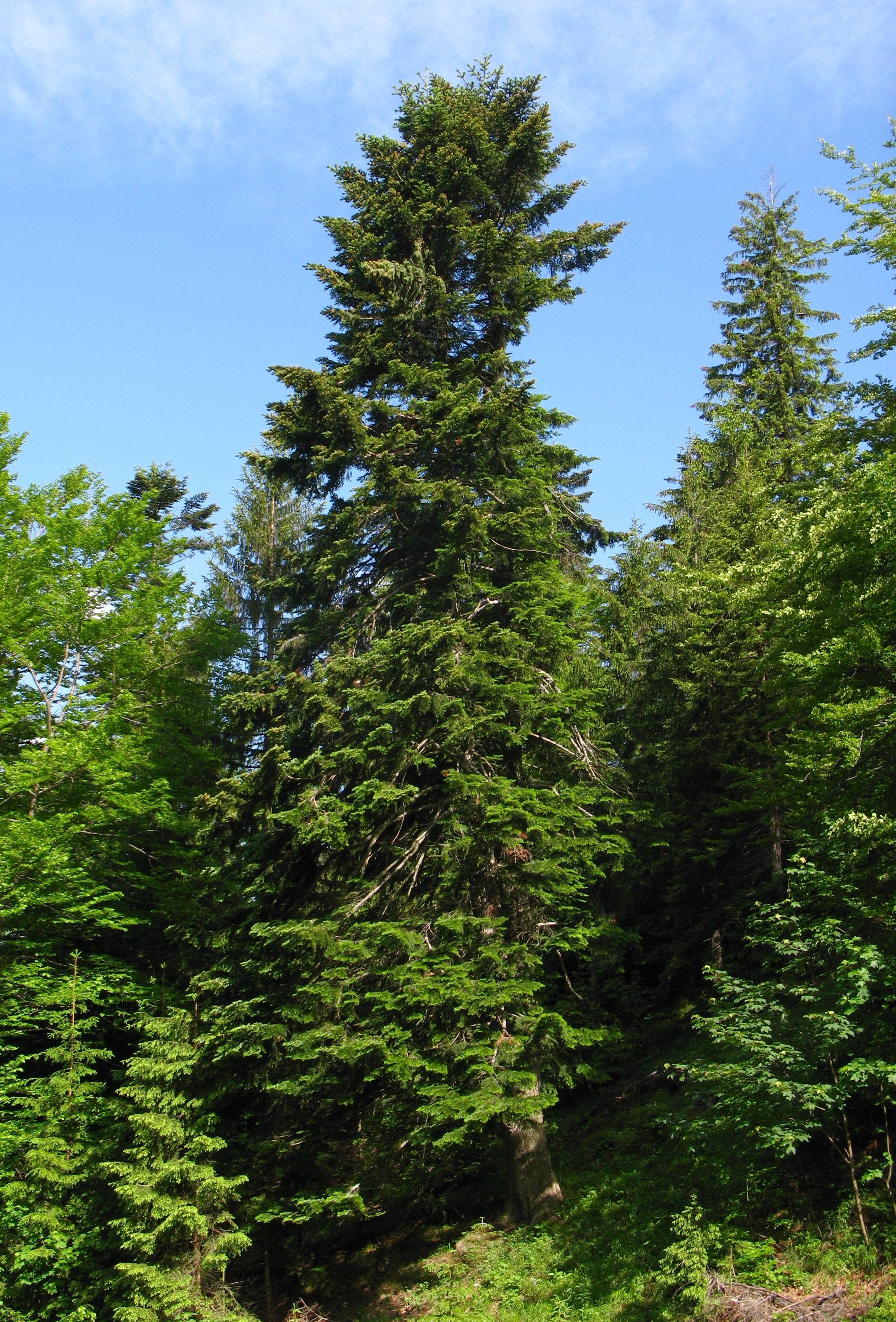 Abies alba near Štefanová, Malá Fatra, Slovakia